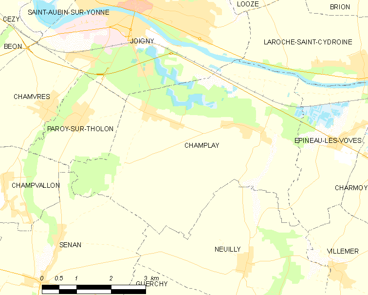 Map of French municipality Champlay